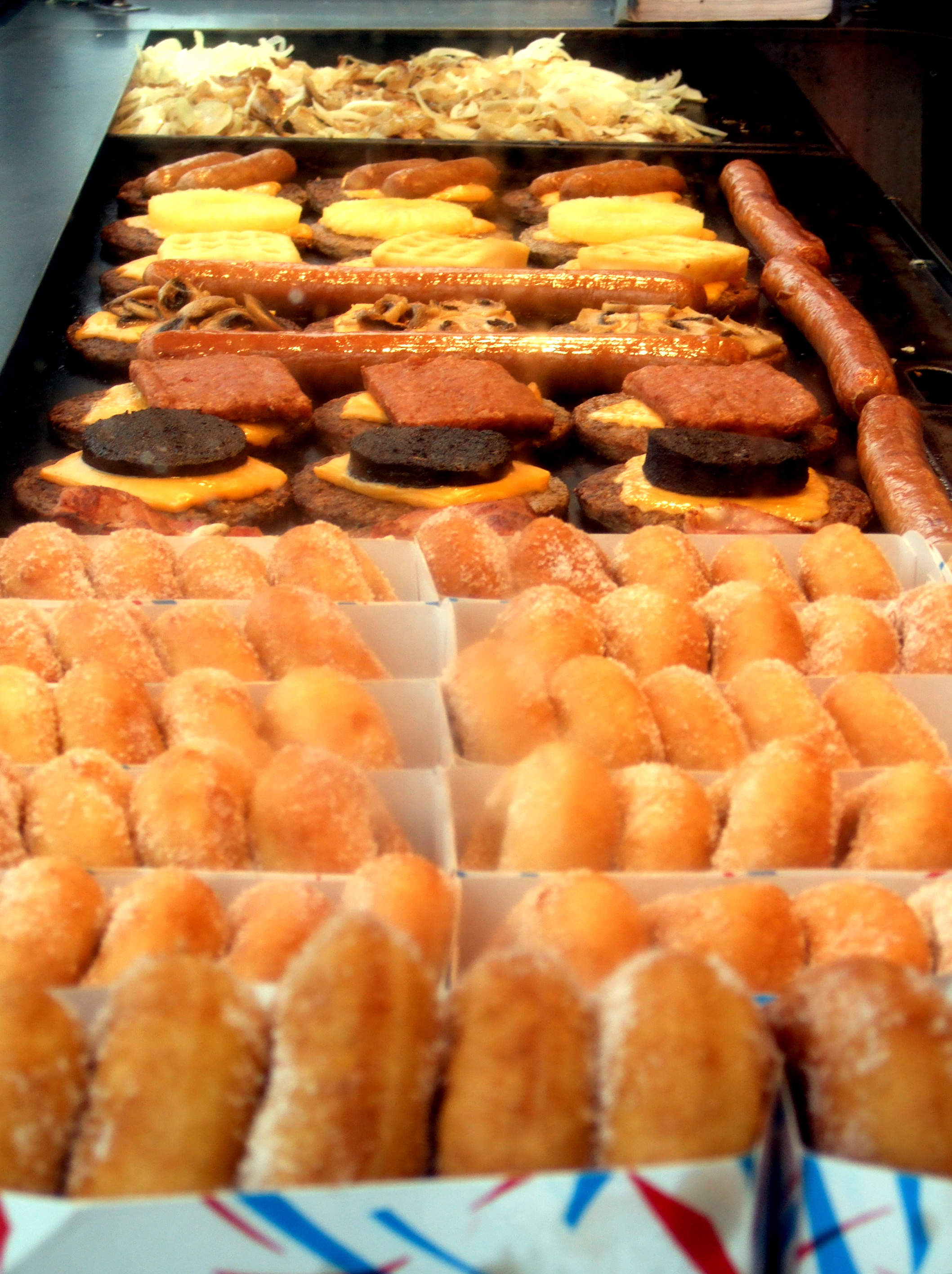 A typical fast food stand on Blackpool promenade. Ohhhhh this picture was used in one of my fave blogs - the ever lovely lifehacker! :-)